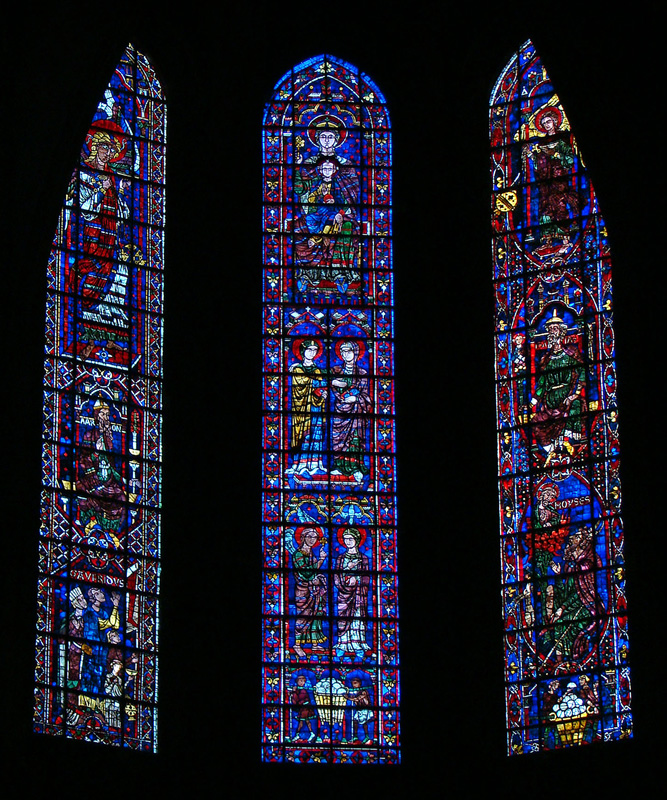 Chartres Cathedral, Eure-et-Loir, Centre, France. Stained glass windows of the choir.